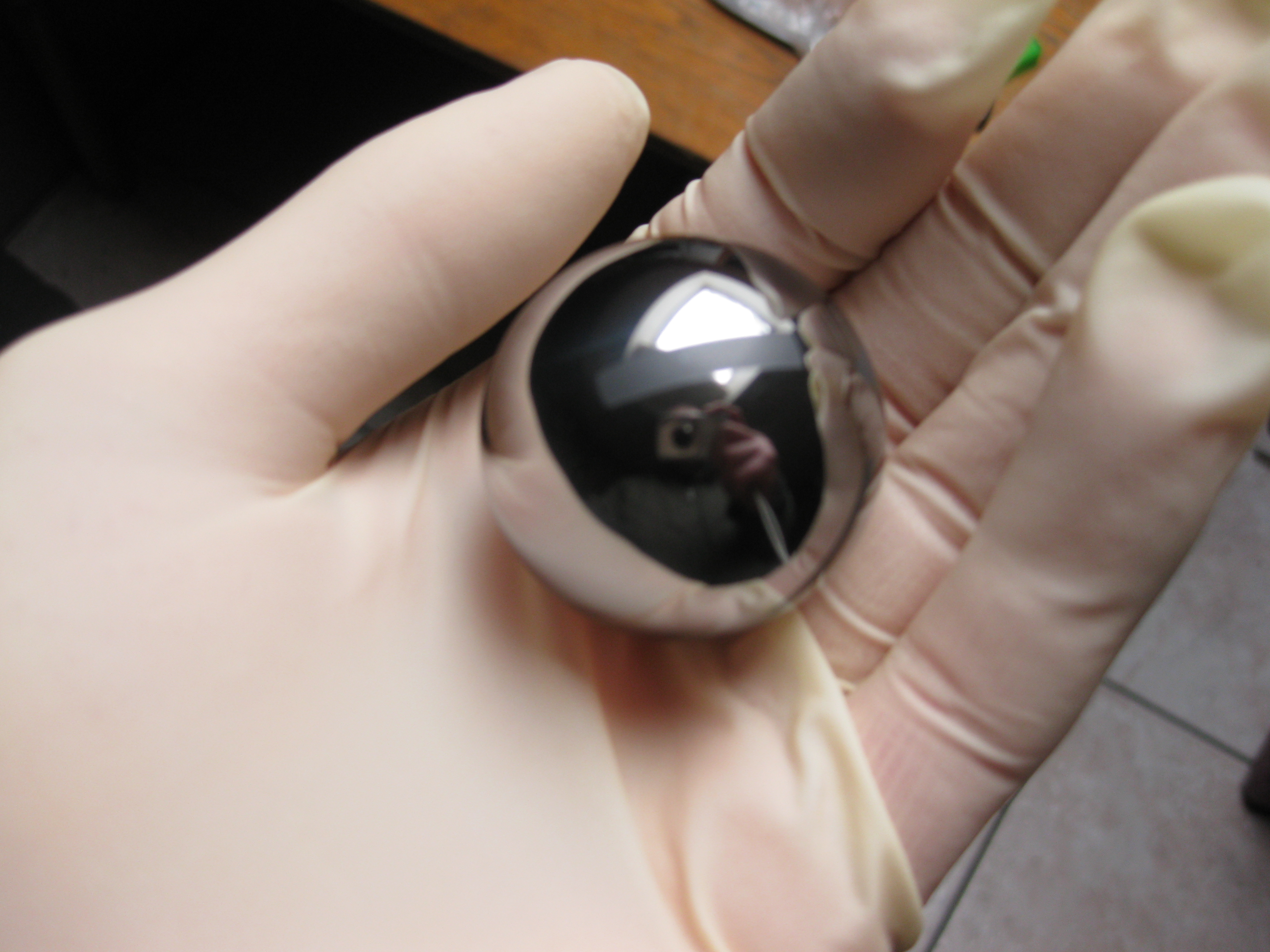 BERYLLIUM - Sphere B52